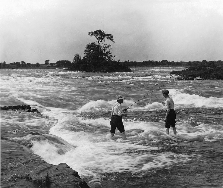 Photograph, Fishing in Lachine Rapids, QC, 1901, Silver salts on glass - Gelatin dry plate process - 20 x 25 cm